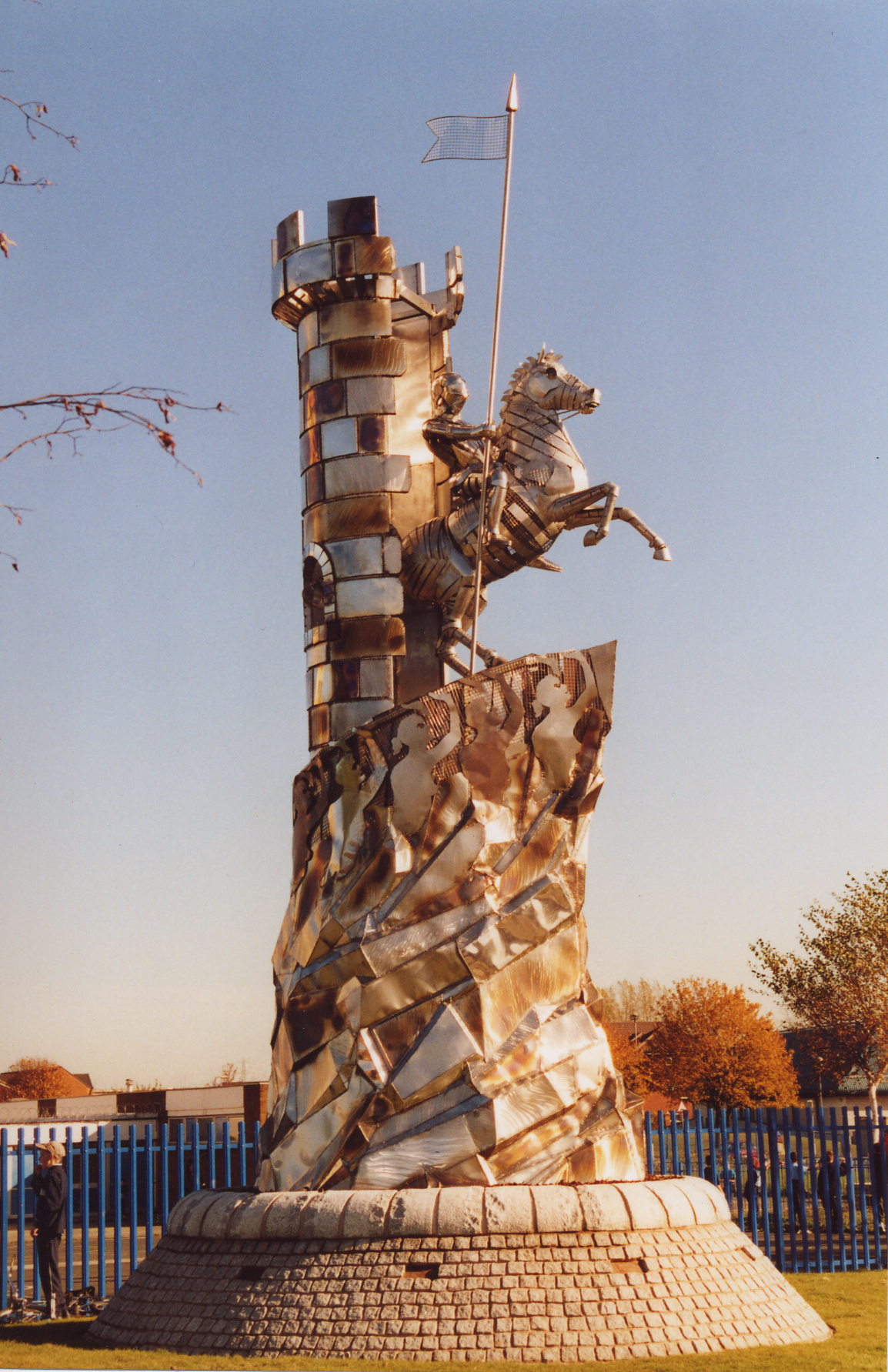 Stainless steel sculpture designed and fabricated by the British Sculptor John McKenna. Commissioned by SAINSBURY's and the Castlevale housing association 2002 for a site in Castlevale, Birmingham.